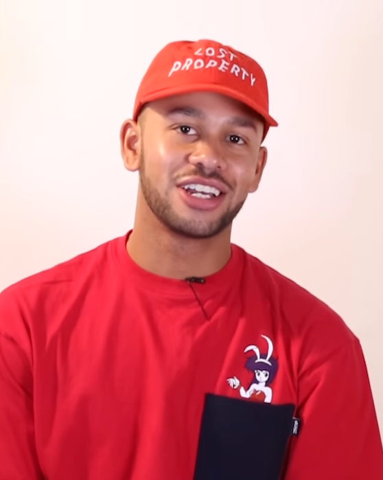 Cape Town rapper YoungstaCPT for BlackNation Video Network in 2016